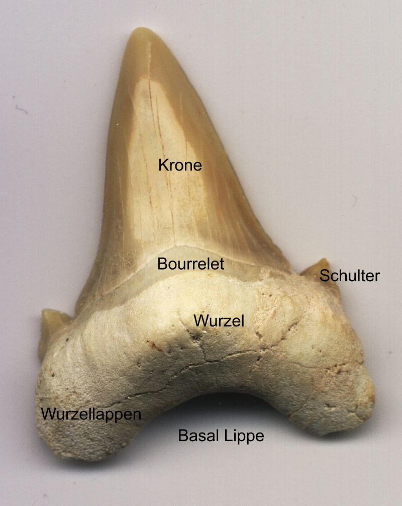 Description of a shark tooth